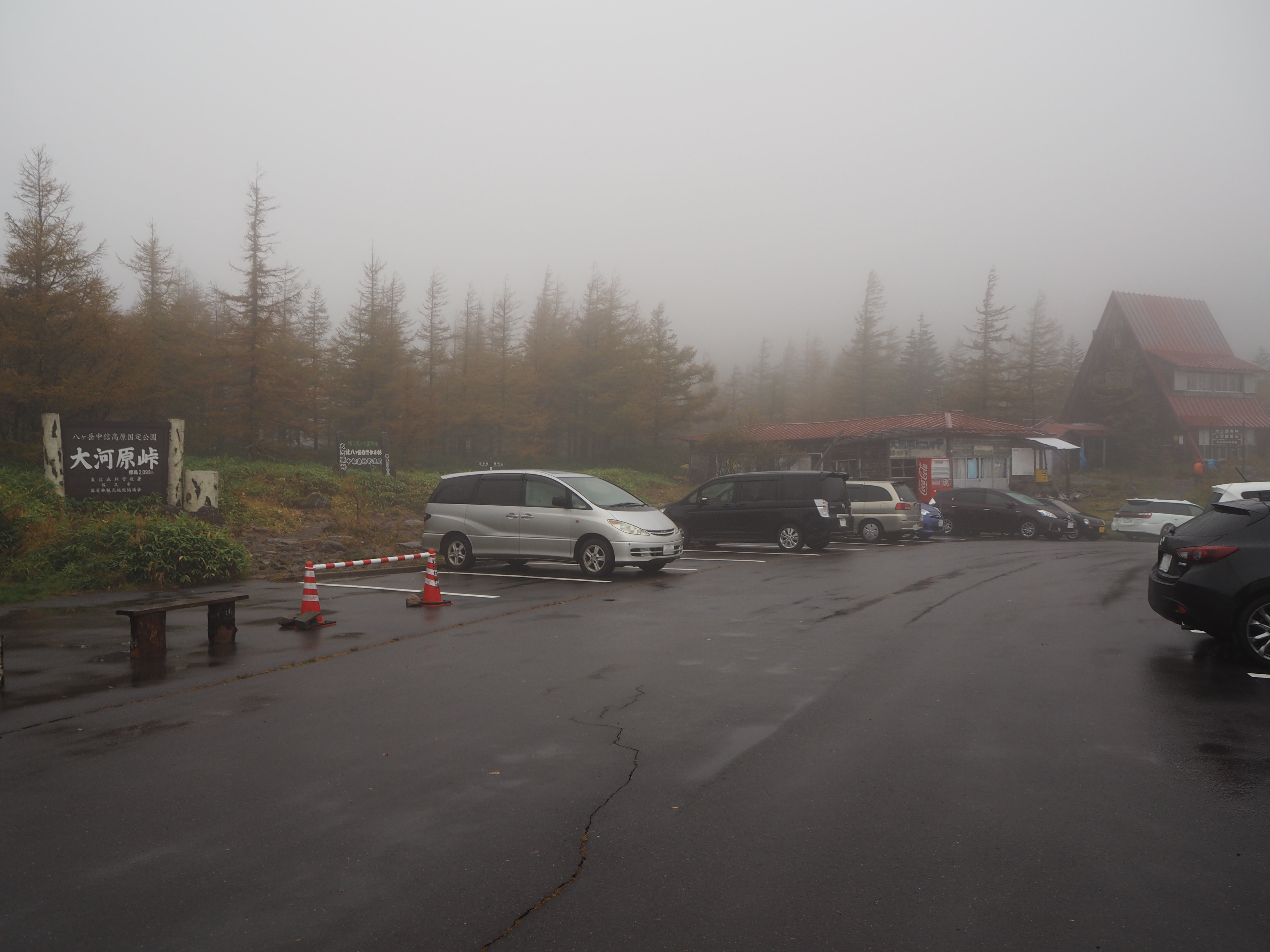 Okawara Pass, Nagano Pref., Japan